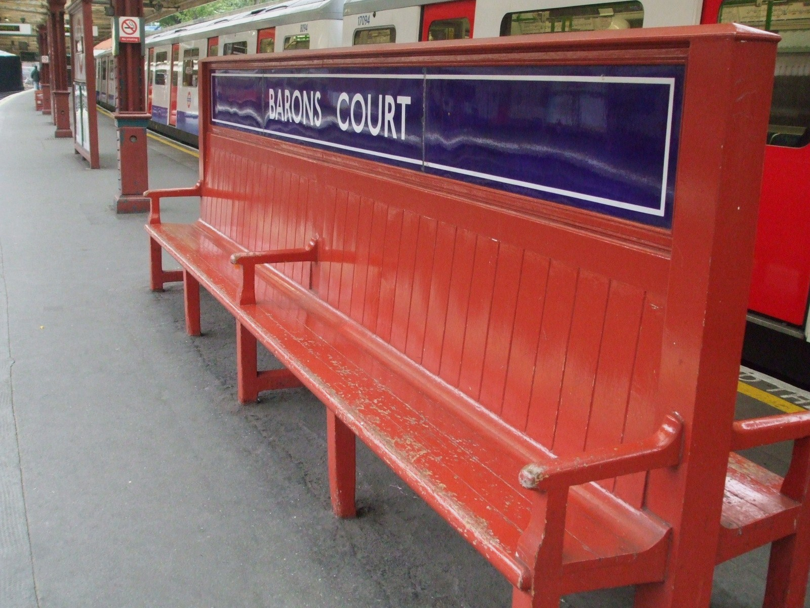 Barons Court tube station - bench on platform with station name